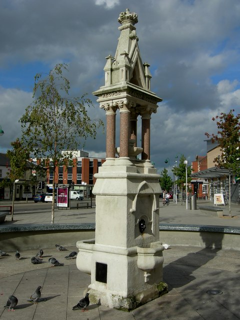 Drinking Fountain. Southampton, City of Southampton, Great Britain